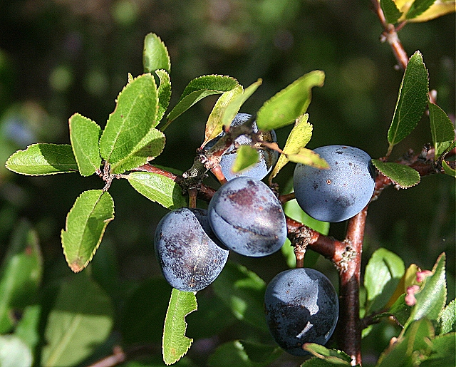 Sloes (Prunus spinosa) Sloes are the fruit of the blackthorn, whose white flowers appear in spring before the leaves. The fruits are too tart to eat raw, but can be used to make sloe gin.